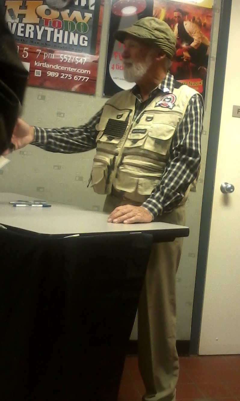 Steve Smith (Red Green), Kirtland Community College.